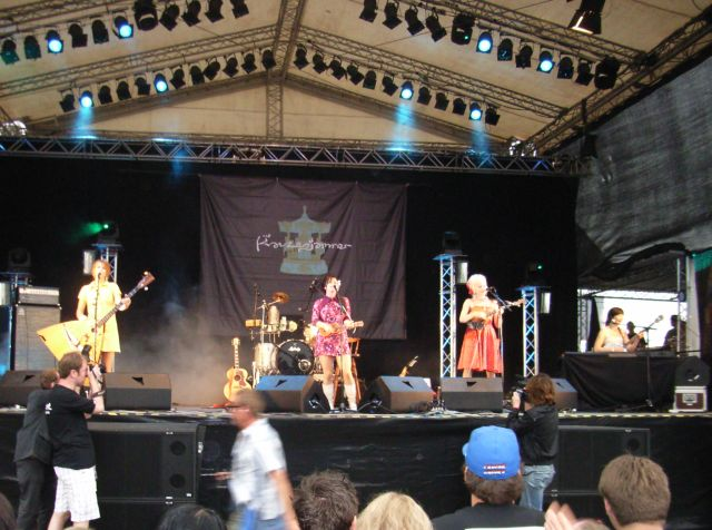 Katzenjammer live at Oberhausen, Germany, 8. August 2009